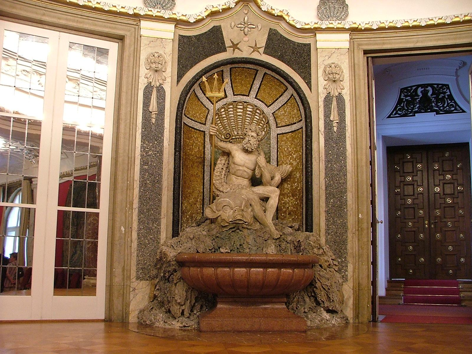 Statue of Neptune from the Portuguese Gallery of Schloss Sigmaringen